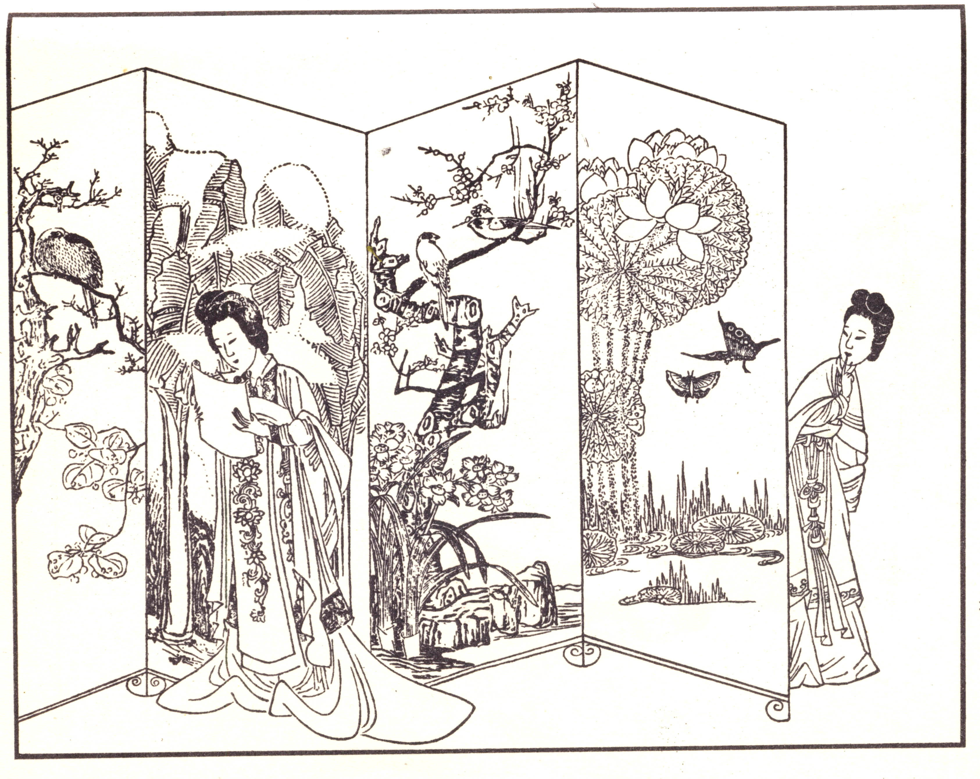 Illustration of act 10 of The Romance of the West Chamber